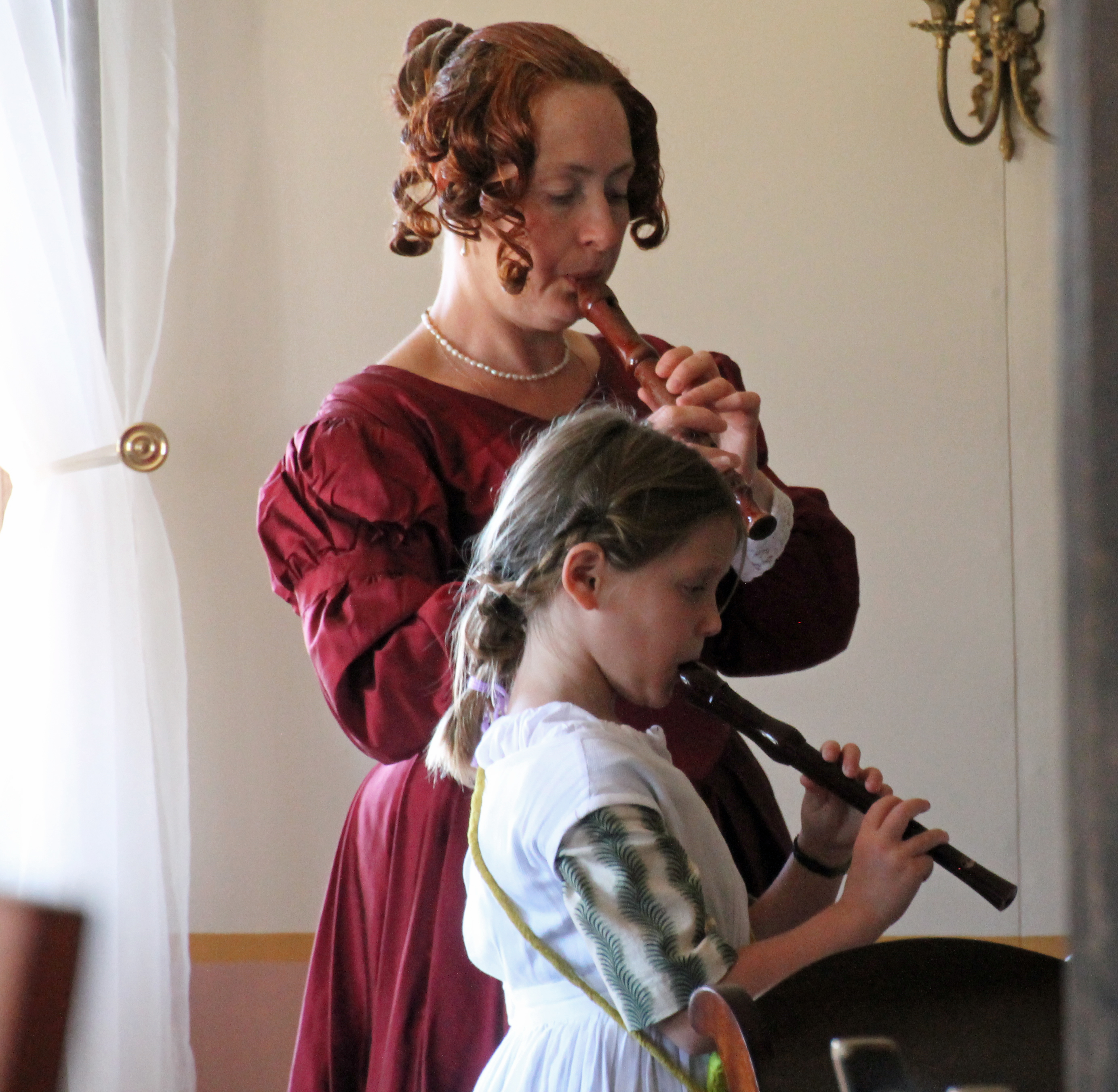 2015 Fort Ross Festival at Fort Ross State Historic Park in Sonoma County, California